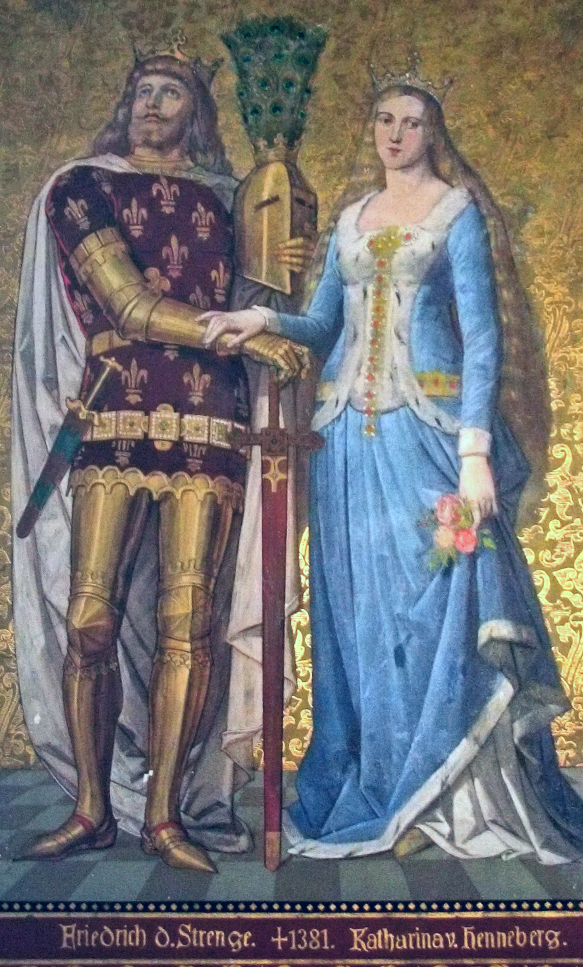 Frederick III, Landgrave of Thuringia, Albrechtsburg of Meissen, Germany, History painting, 19th century